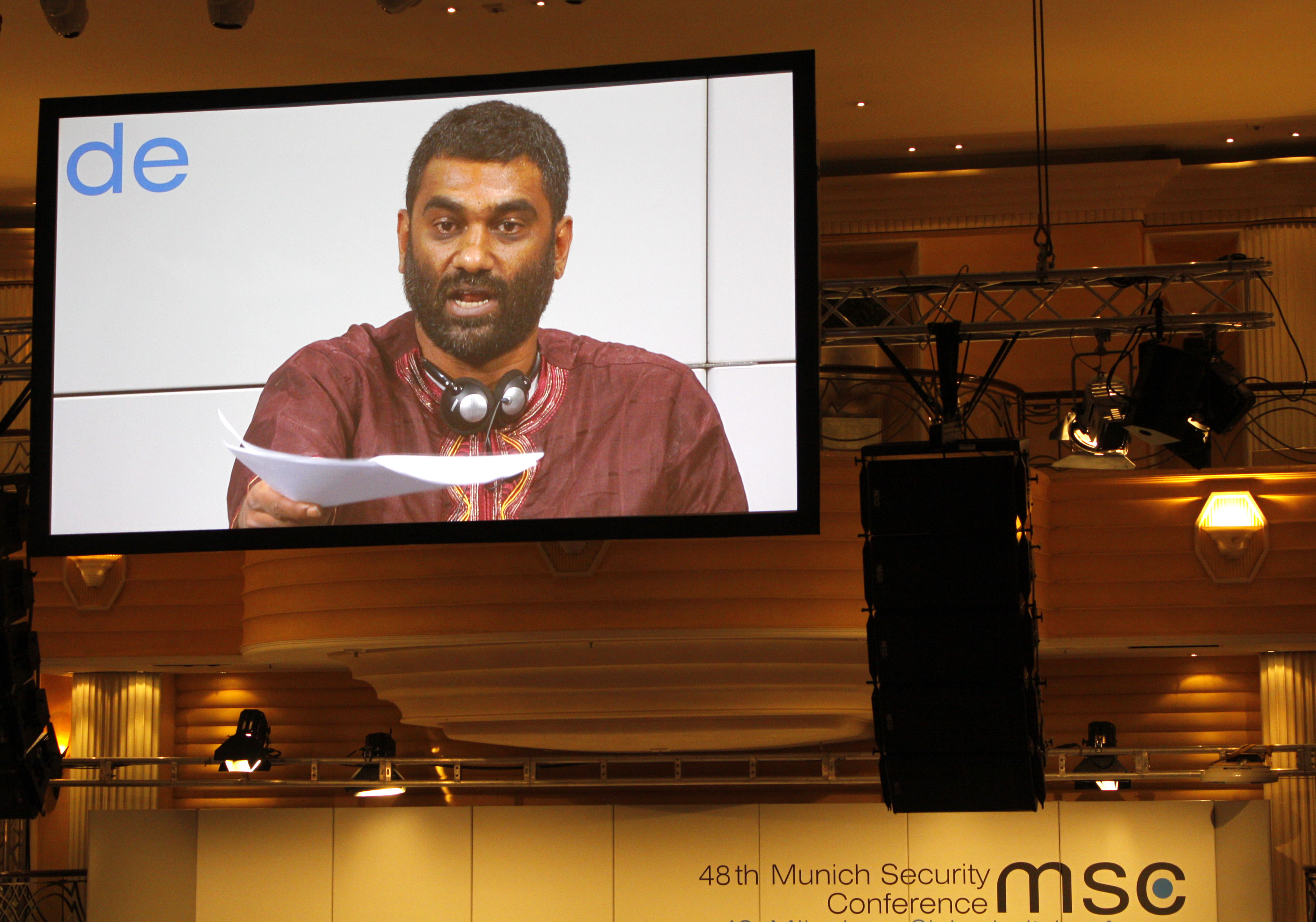 48th Munich Security Conference 2012: On the Display: Kumi Naidoo, Executive Director, Greenpeace International.